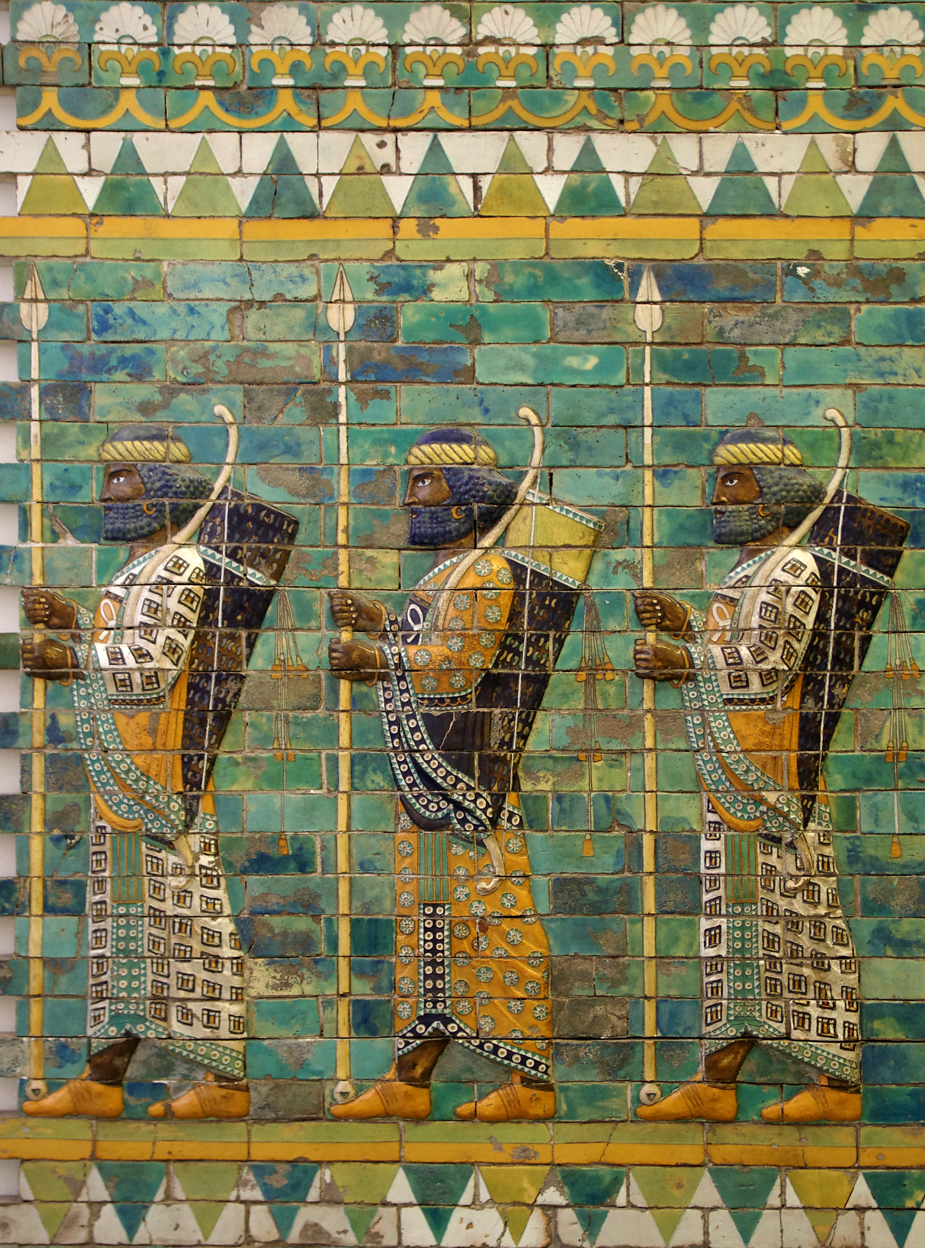 Relief with Achaemenid warriors in Pergamon Museum in Berlin